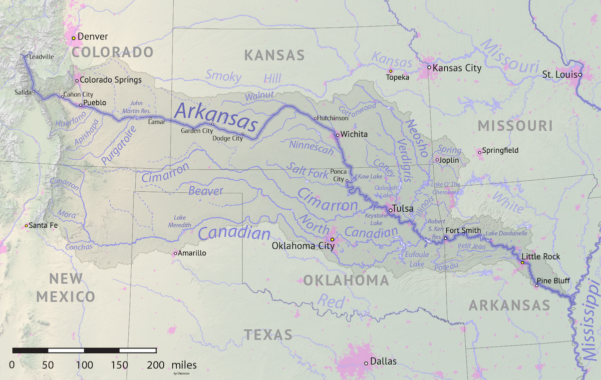 Map of the Arkansas River drainage basin. Created using USGS National Map and NASA SRTM data.